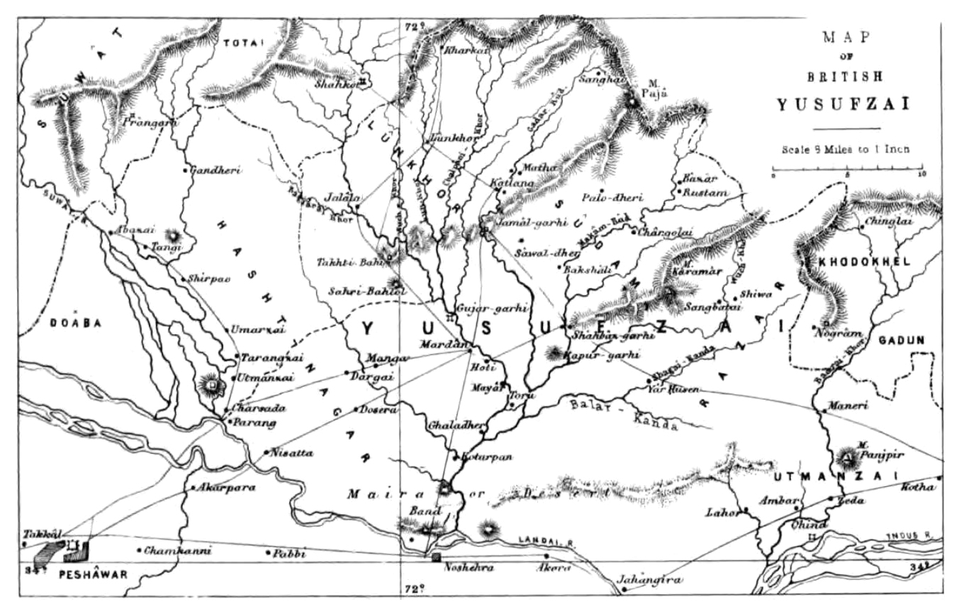 Map of Yusufzai, Gandhara